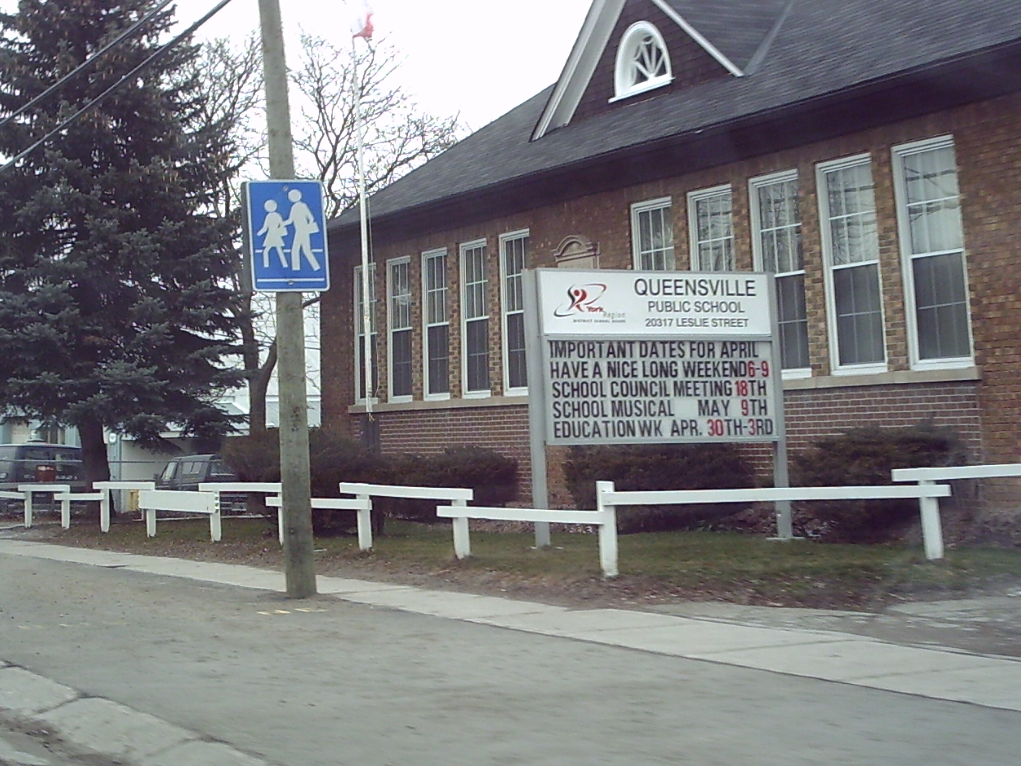 Queensville Public School, Queensville, Ontario, taken by User:DoubleBlue